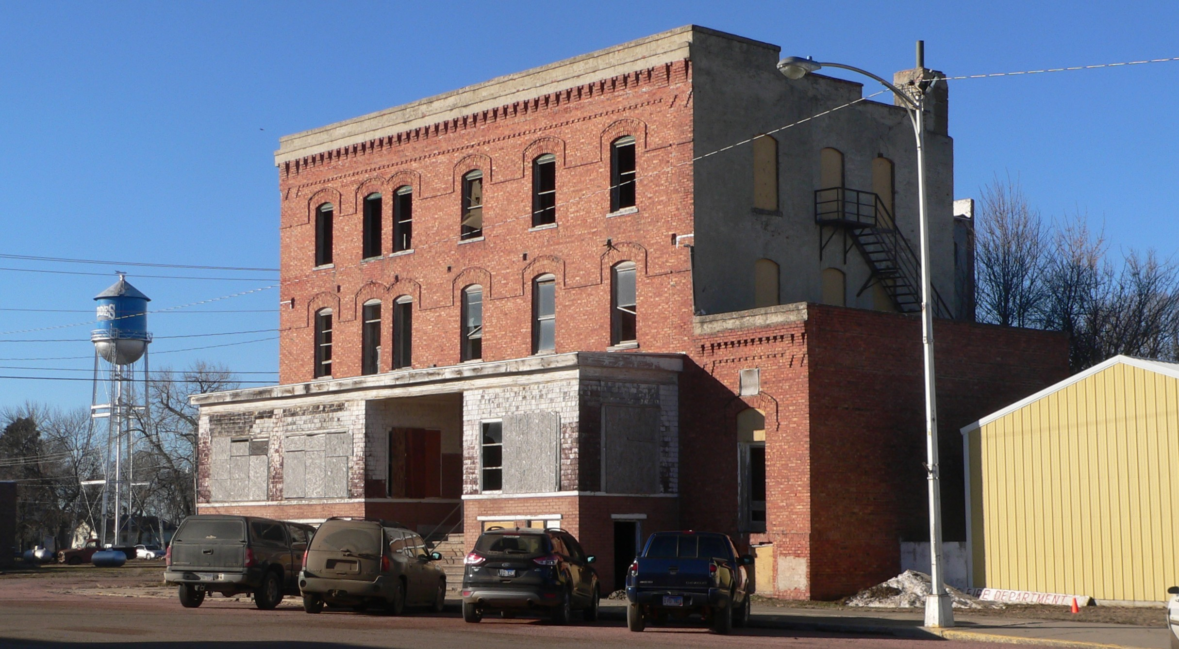 Building at northwest corner of 3rd and Main Streets in Geddes, South Dakota; seen from the northeast.